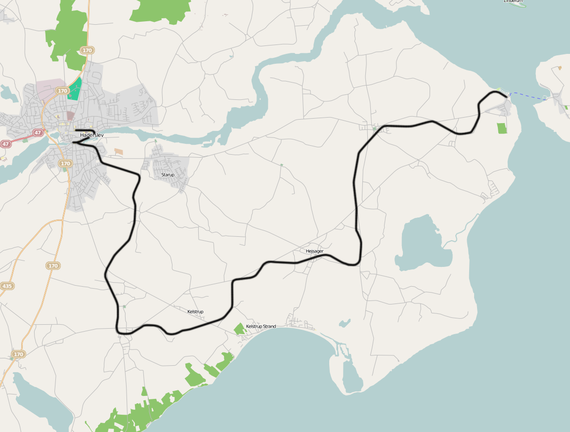 Railway line Haderslev - Årøsund